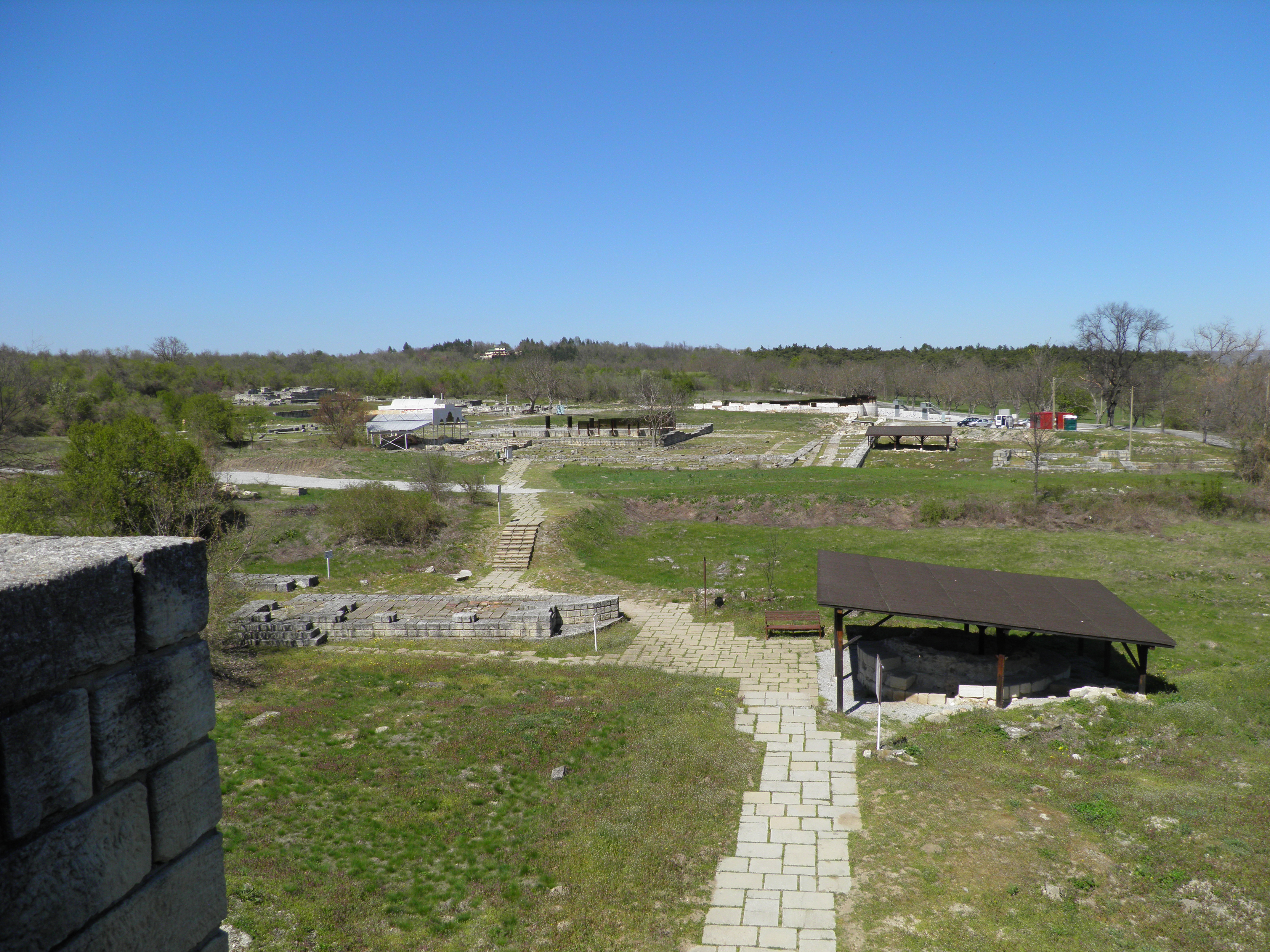 The Old Bulgarian capital Preslav Ruins